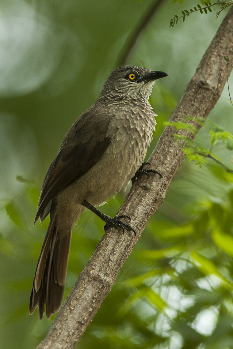 Brown Babbler - KenyaNH8O0619